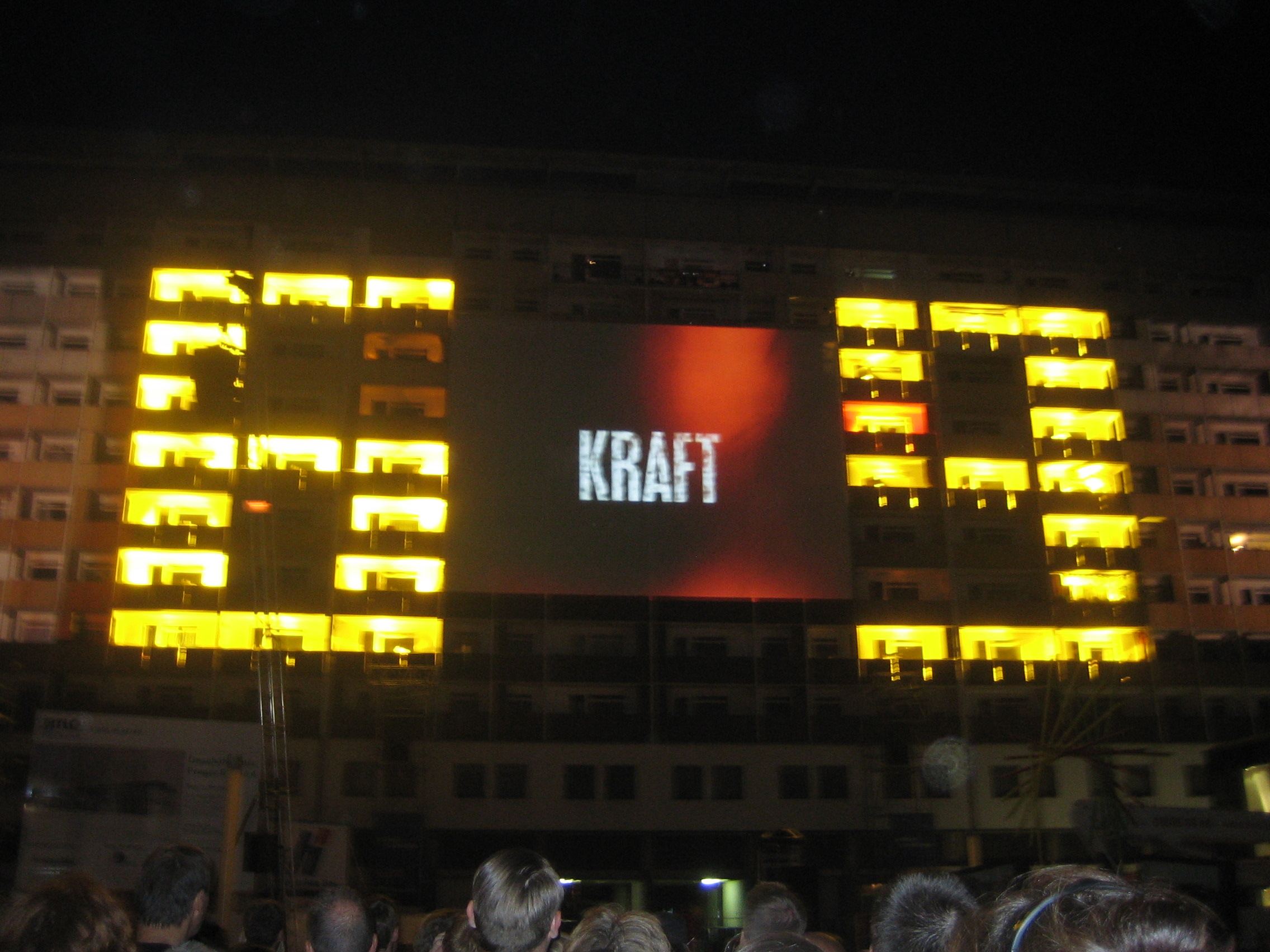 Hochhaussinfonie in Dresden